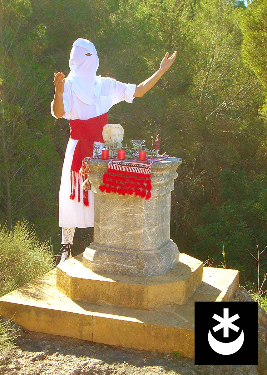 Magius in a promo picture (2014).